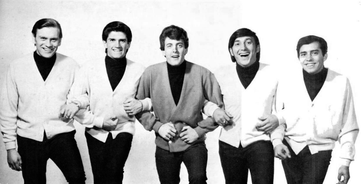 Trade ad for Tommy James and the Shondells's single "Gettin' Together".To better adapt it to his respective Wikipedia article, the ad was cropped and cleaned in a graphics editing program. The original can be viewed at the source below.